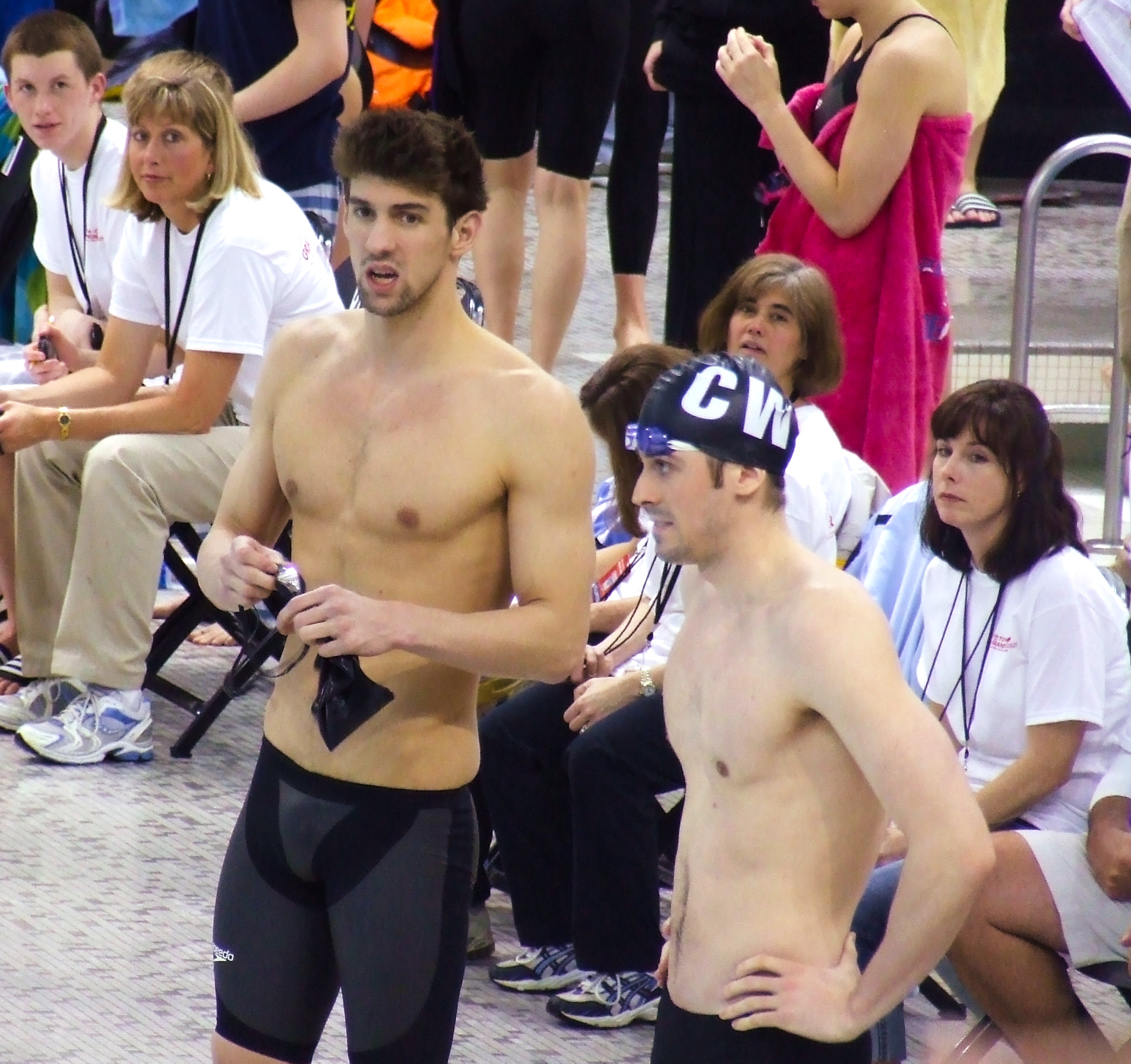 Michael Phelps and Davis Tarwater wait for a race to start at the Columbus Grand Prix April 4, 2008